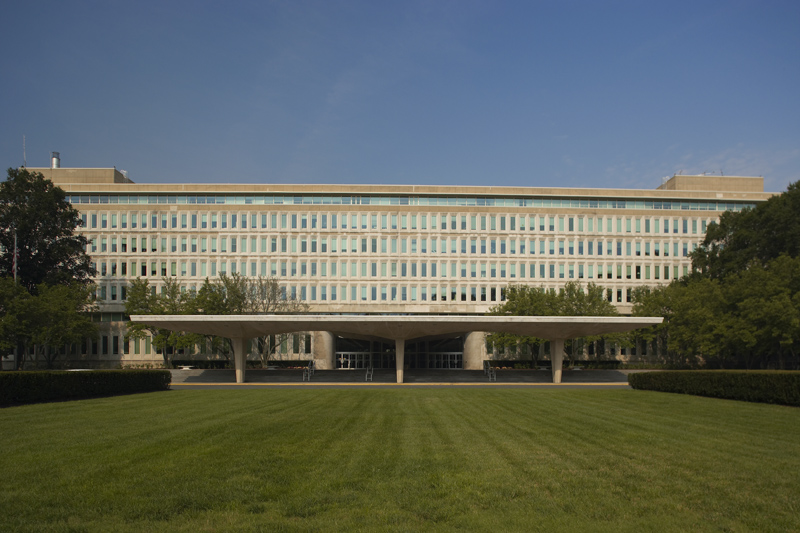 The CIA Original_Headquarters Building at Langley, Virginia. On July 5, 1956, the contract with Harrison & Abramovitz, an architectural firm that designed the United nation's Dag Hammarskjöld Library Building and Lincoln Center in New York, was signed (forty architects were given secret clearances). In May 1959, construction began, and President Kennedy presided over the dedication of CIA's new Headquarters on November 28, 1961.